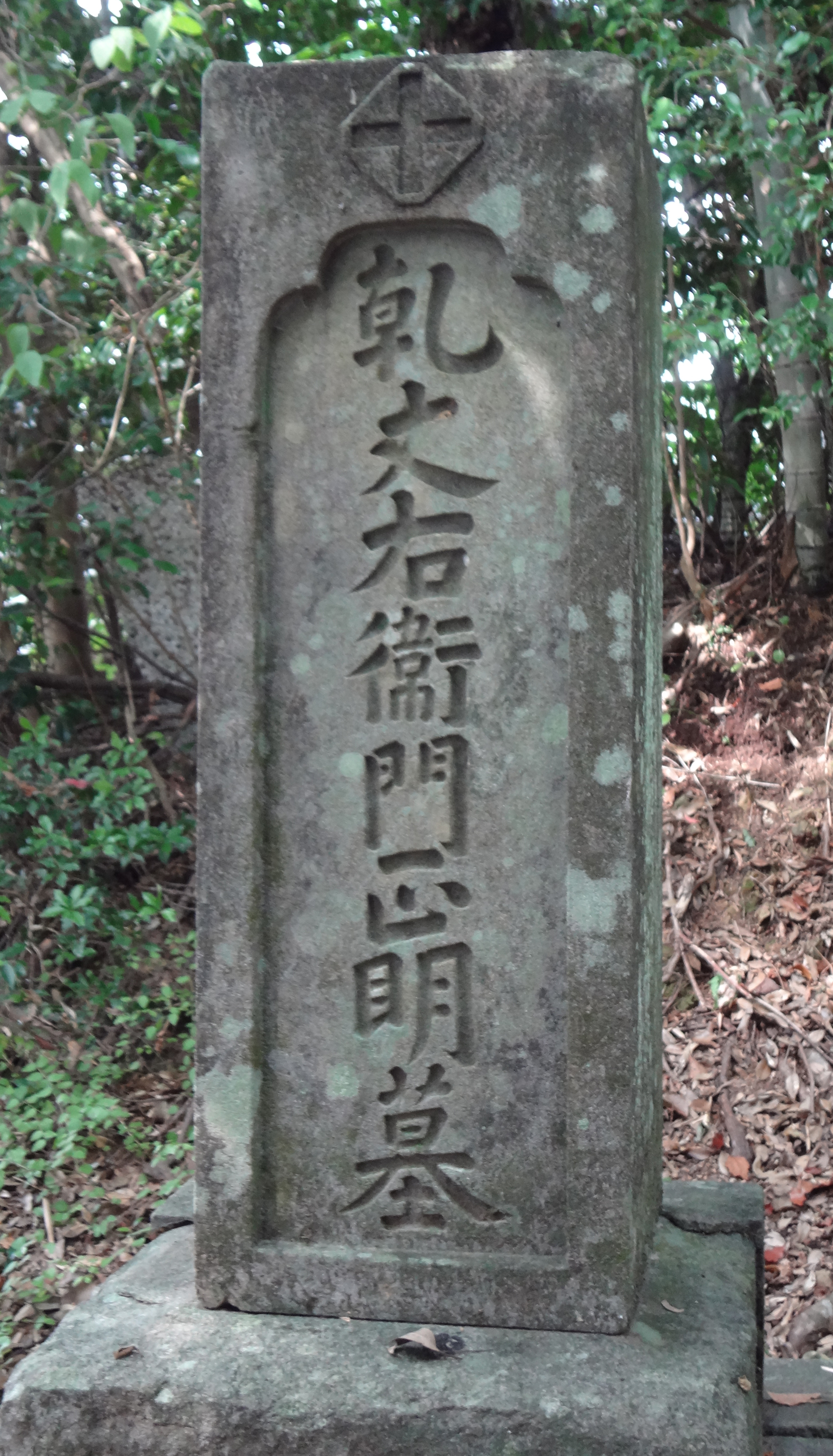 The tomb of INUI(ITAGAKI) MASA-AKIRA ( -1805). Great-Grandfather of ITAGAKI TAISUKE.